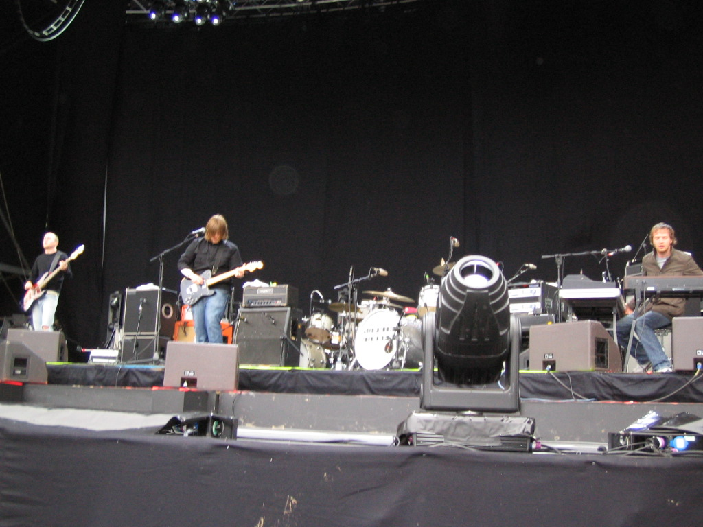 Self-taken picture of Morning Runner in concert supporting Coldplay